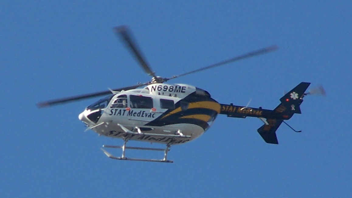 I spent the day at the University of PIttsburgh for a symposium on H H Richardson's Allegheny Couthouse and Jail. There were some opportunites for photography at the beginning and end of the day. A common site in the Eastern reaches of the city.